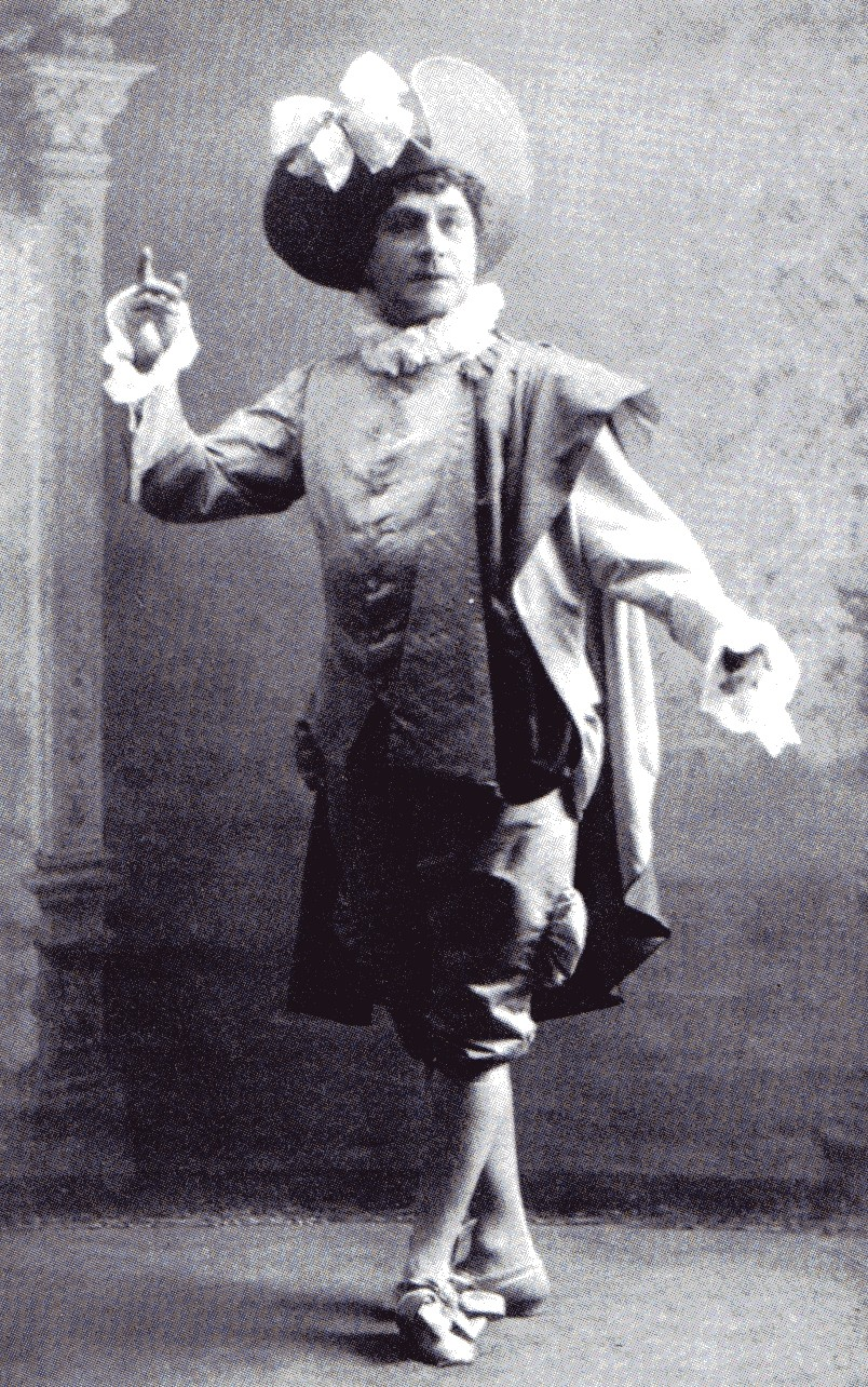 Pavel Gerdt as Damis in the Imperial Ballet's production of the Glazunov/Petipa ballet Ruses d'Amour (or The Lady Soubrette), 1900.